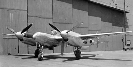 Lockheed XP-49